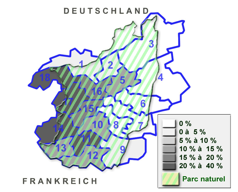 Spatial distribution of the proportions of exceedances for the cesium 137 in meat (muscle) of boar driven by w: en: Palatinate Forest (Pfälzerwald), January 2001-February 2002 (from a sample of 2,131 wild boar), for forest districts (with the hatched area of ​​the park). This maps must be read together with another card : Fichier:Karte Pfälzerwald.png).